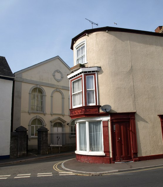 Chapel and house, Chudleigh In the shadow is the United Reformed church, dating from 1830, with Italianate windows and an oculus in the gable. The ground floor windows of the house on the corner of Old Exeter Street (foreground) and Woodway Street, reaching almost to the pavement, suggest it was formerly a shop.